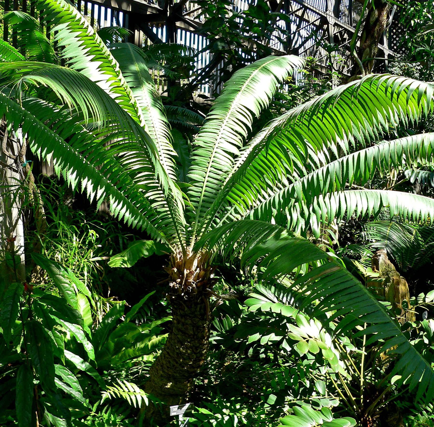 Photo of Dioon spinulosum at Balboa Park